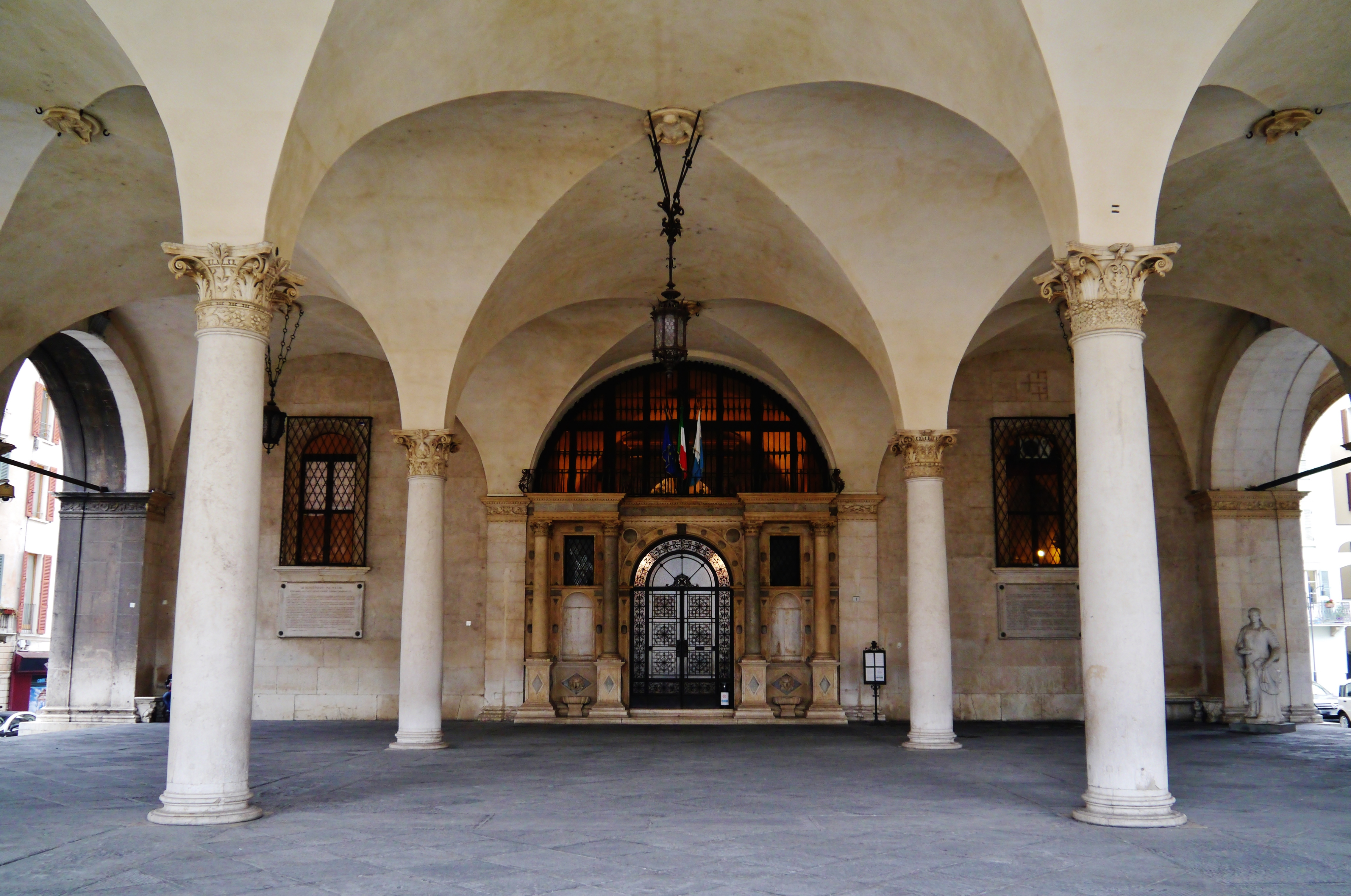 Arcades of the Loggia Palace at the Loggia Square, Brescia, Province of Brescia, Region of Lombardy, Italy